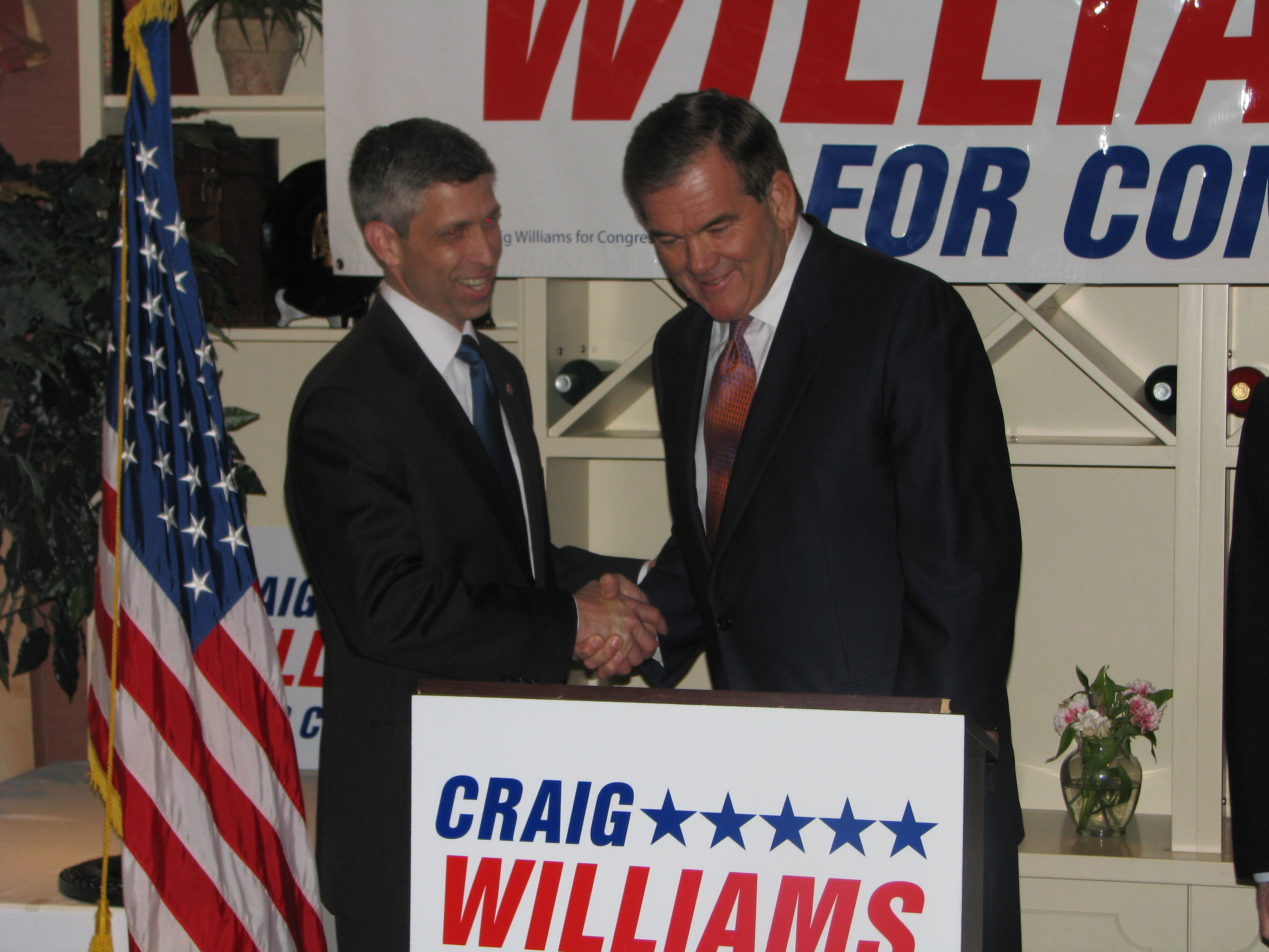 Wendell Craig Williams is endorsed for PA-7 congress by former PA Governor Tom Ridge